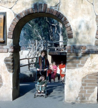 California, Buena Park, Knott's Berry Farm, "Ghost Town", marquee to El Camino Real attraction (1963): Tourists stroll out of adobe archway. Looking north from the train station through the adobe "El Camino Real - Kings Highway" entrance portal and pedestrian underpass of the Stagecoach road, a guest pushes a rental stroller and gazes at Calico Square. Twenty-one adobe enclosures each containing a miniature model of the next Spanish mission in California to the north, with descriptive text beside the viewing window were beyond the underpass.